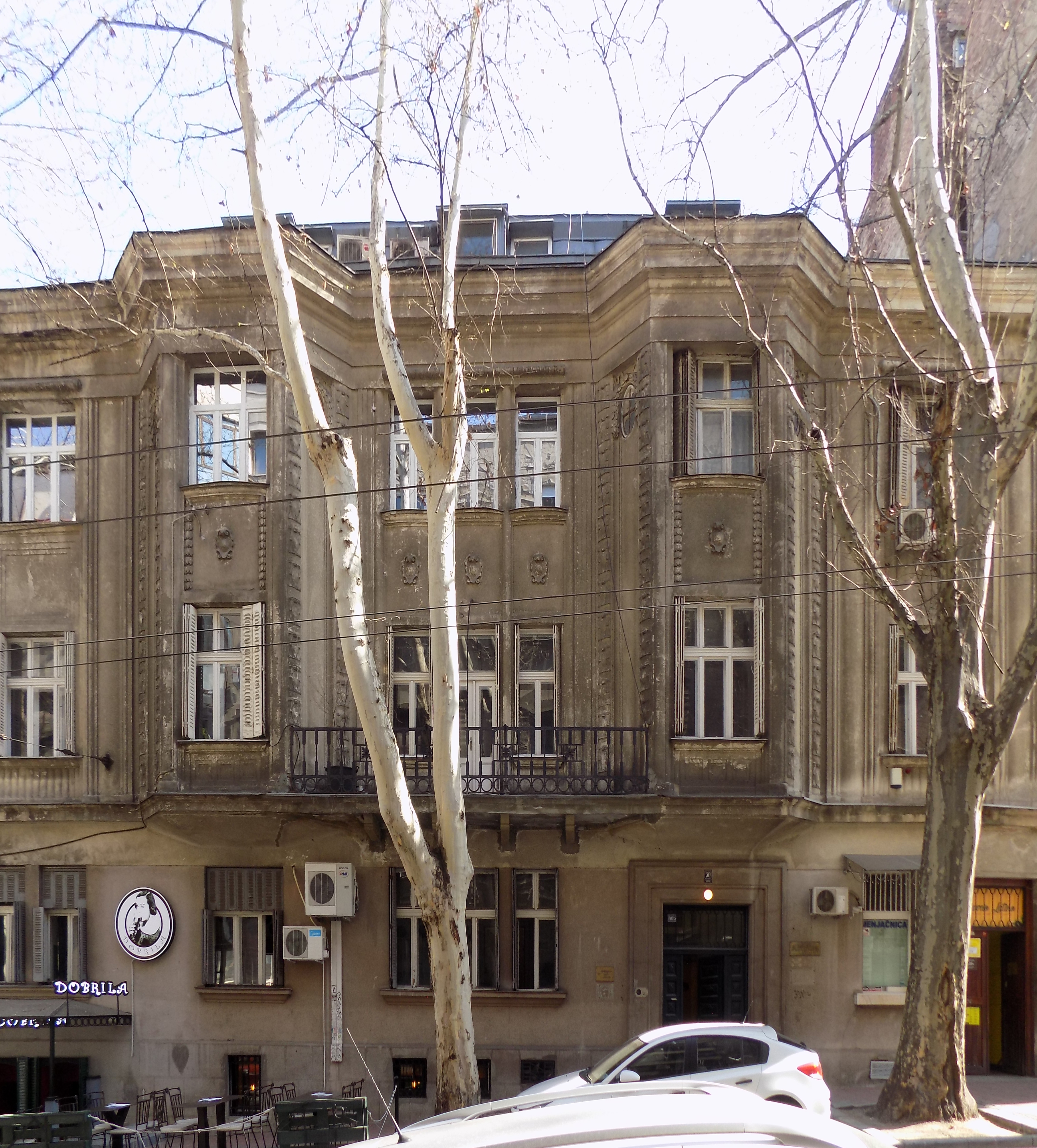 House of Geca Kon in 30 Dobračina street in Belgrade